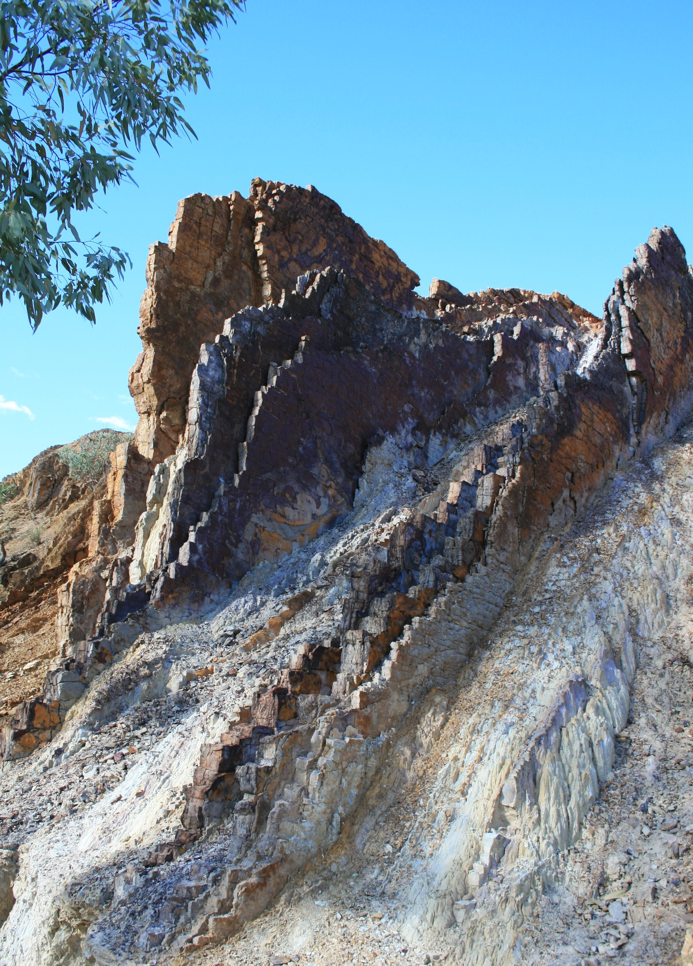 Multicoloured ochre rocks used in Aboriginal ceremony and artwork. Ochre Pits, Namatjira Drive, Northern Territory.